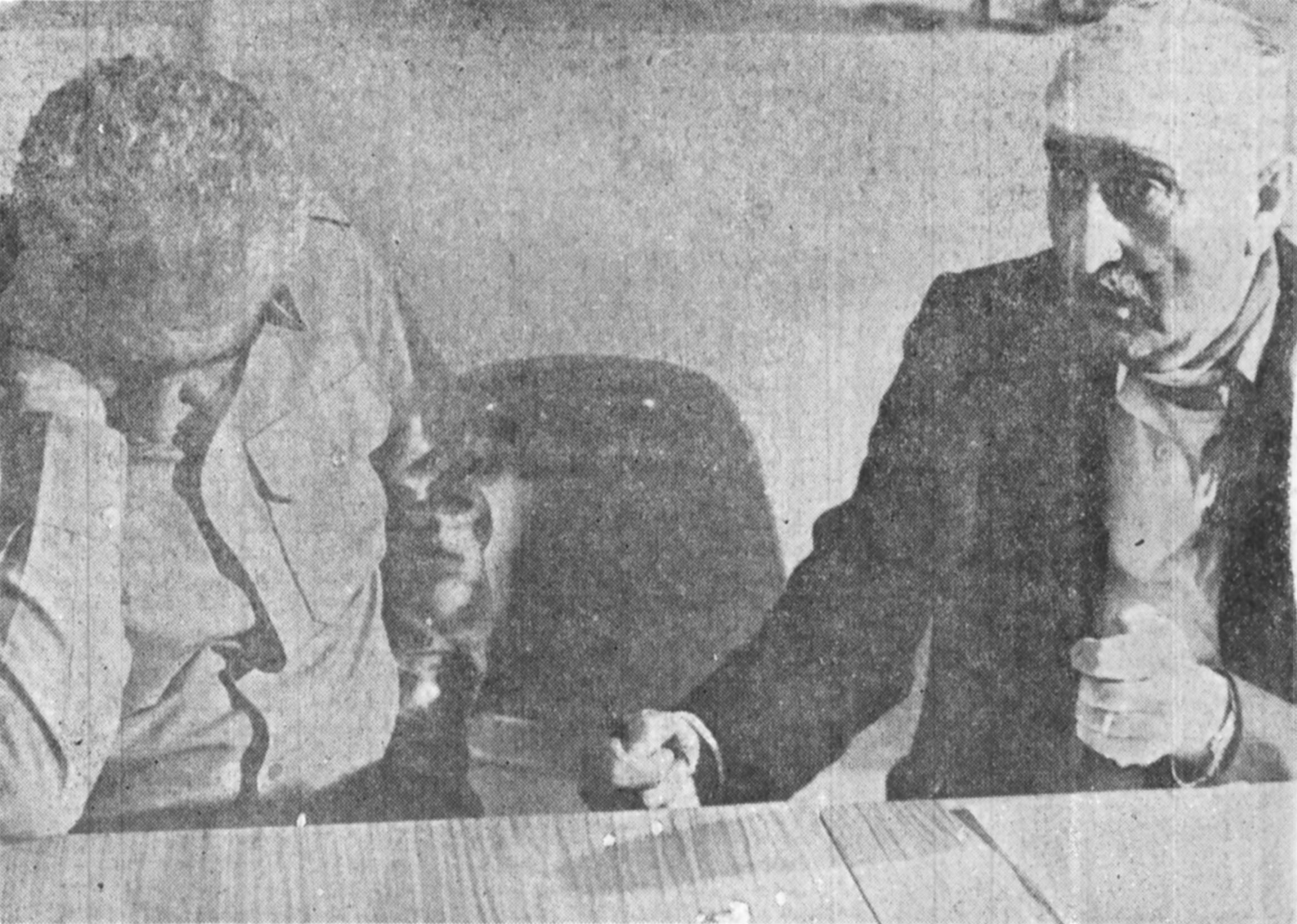 Nematollah Nassiri arrested and brought to an "islamic court" to be tried and ultimately be executed the same day - picture 2